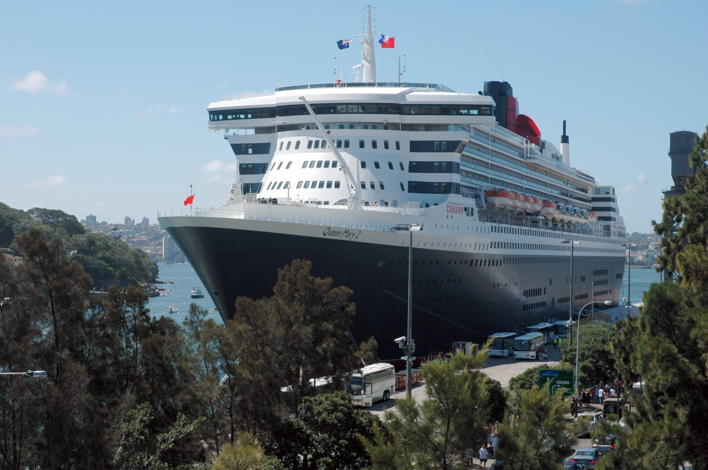 Sydney, Australia, 20/2/07. QM2 berthed at Wooloomoolloo